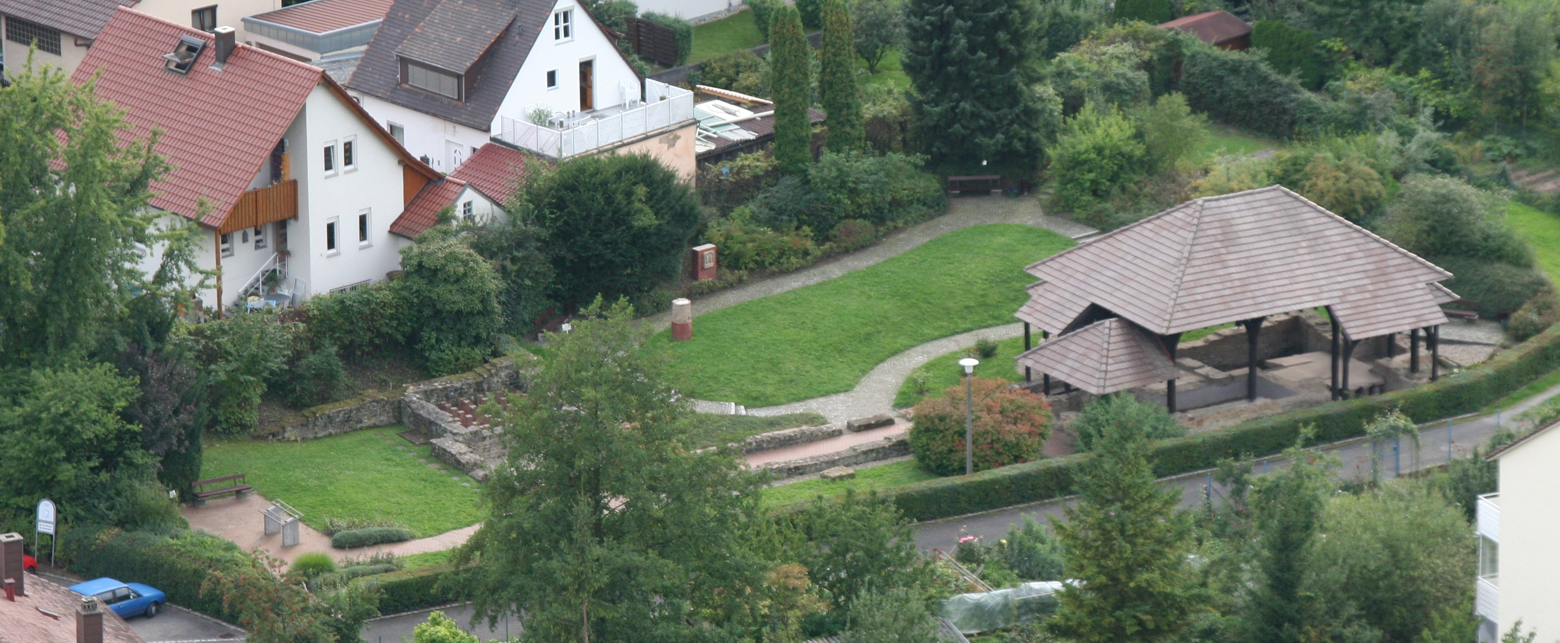 The Roman bath house in Weinsberg